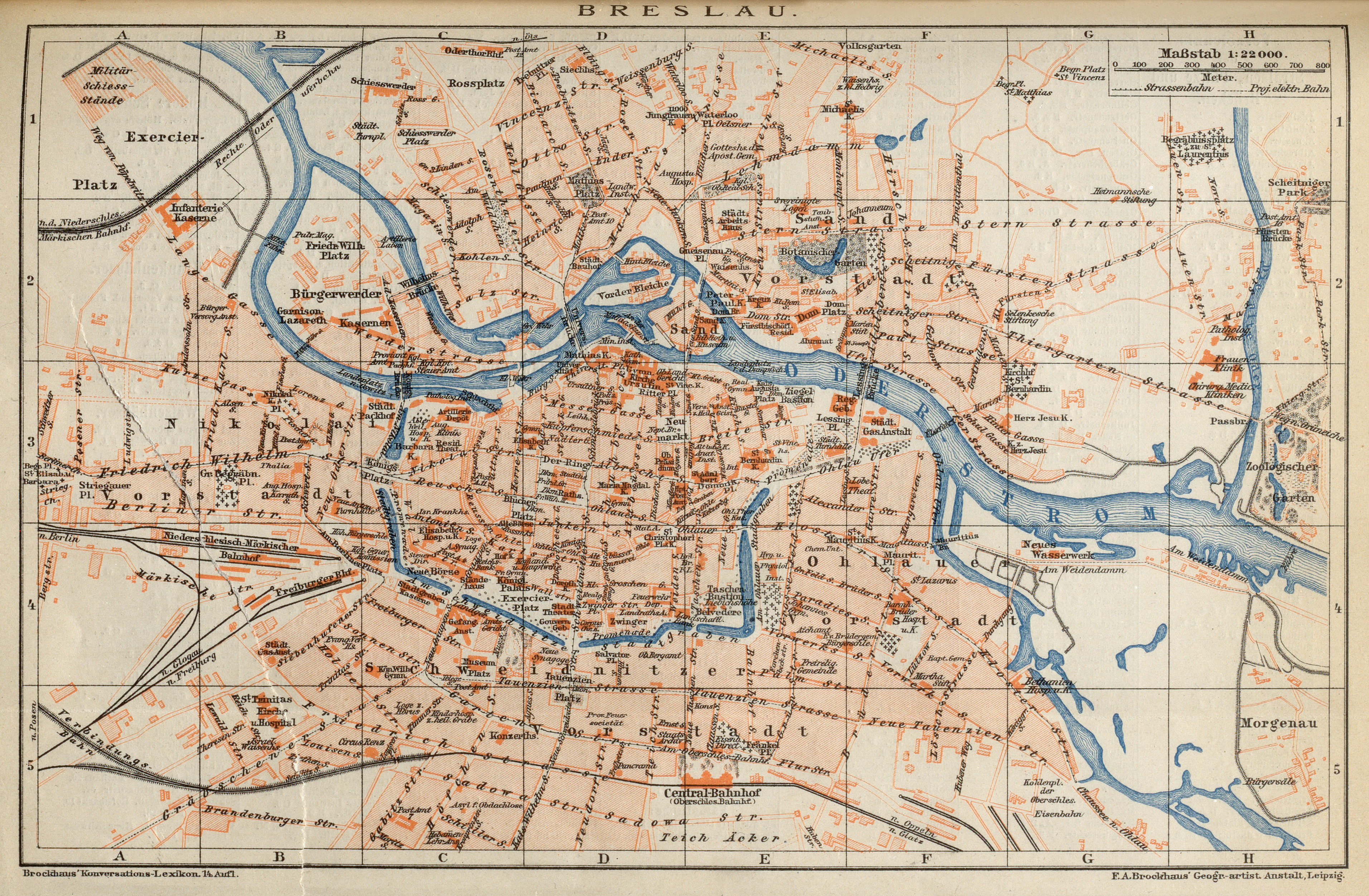 City map of Breslau (pl: Wrocław) at about 1890